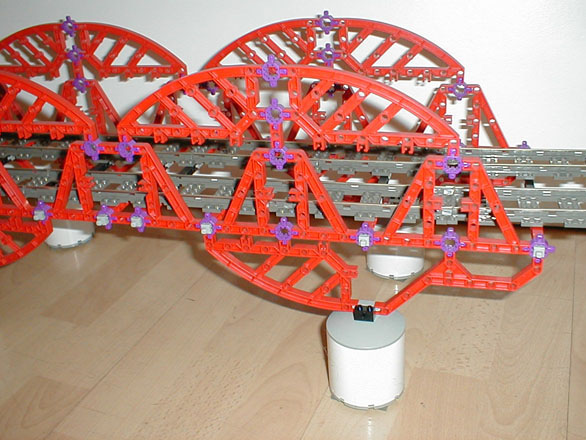 a bridge built of LEGO-ZNAP, LEGO-Technik and LEGO-Railway bricks ZNAP was a building system of LEGO for big models; it isn't sold any more.